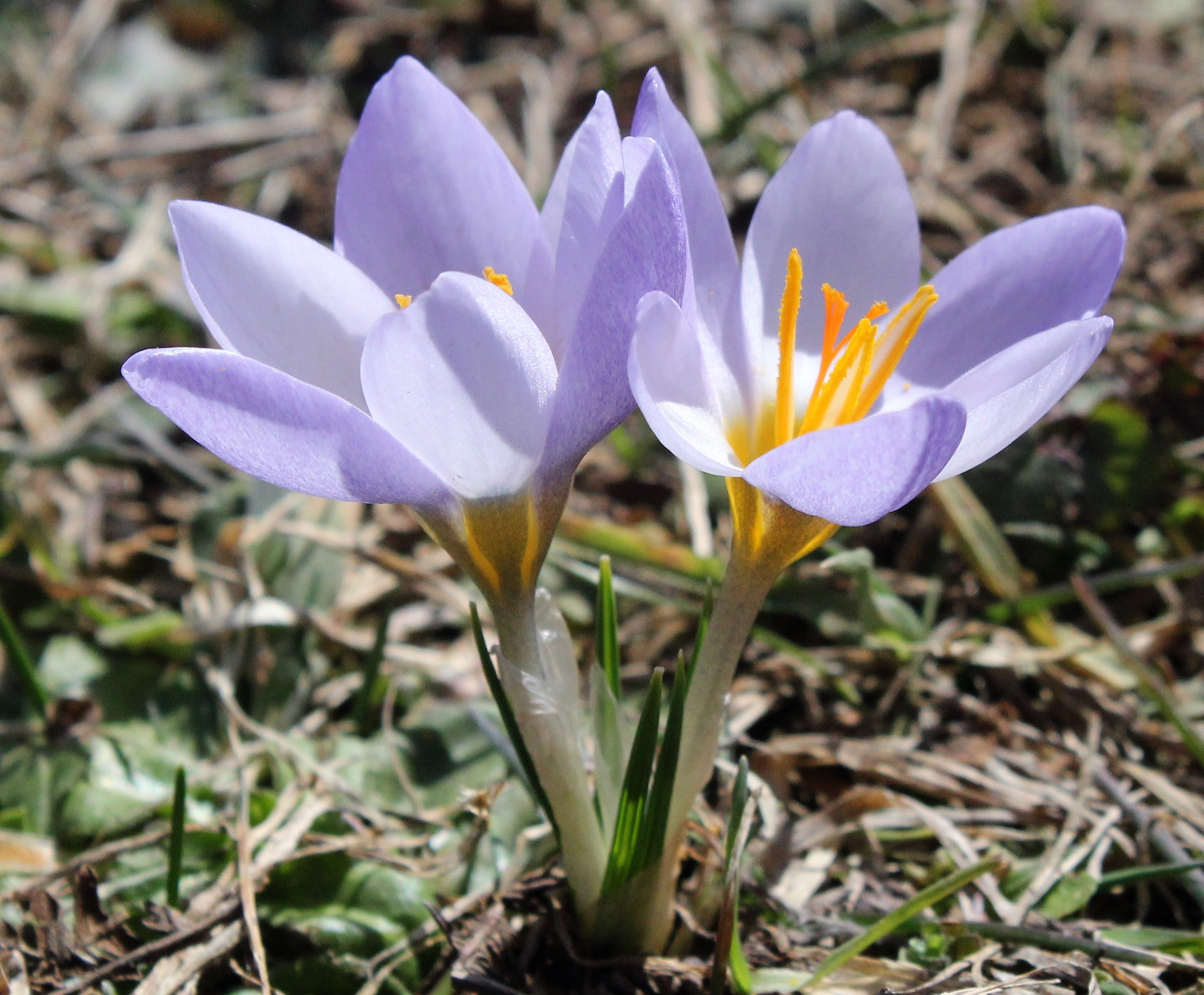 Crocus keltepensis double